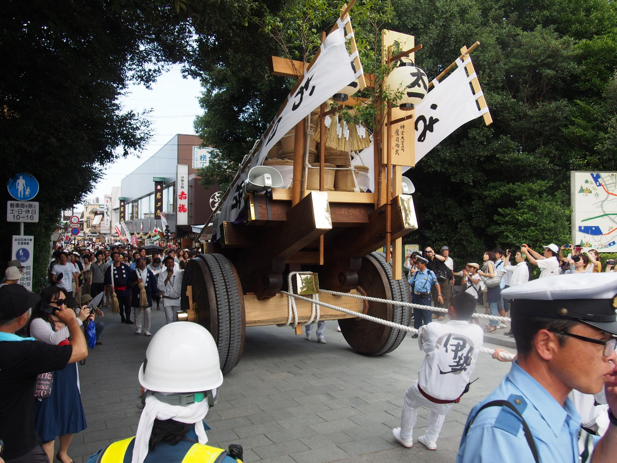 Oshiraishi-nochi festival at Naiku of Ise Grand Shrine, Mie, Japan.